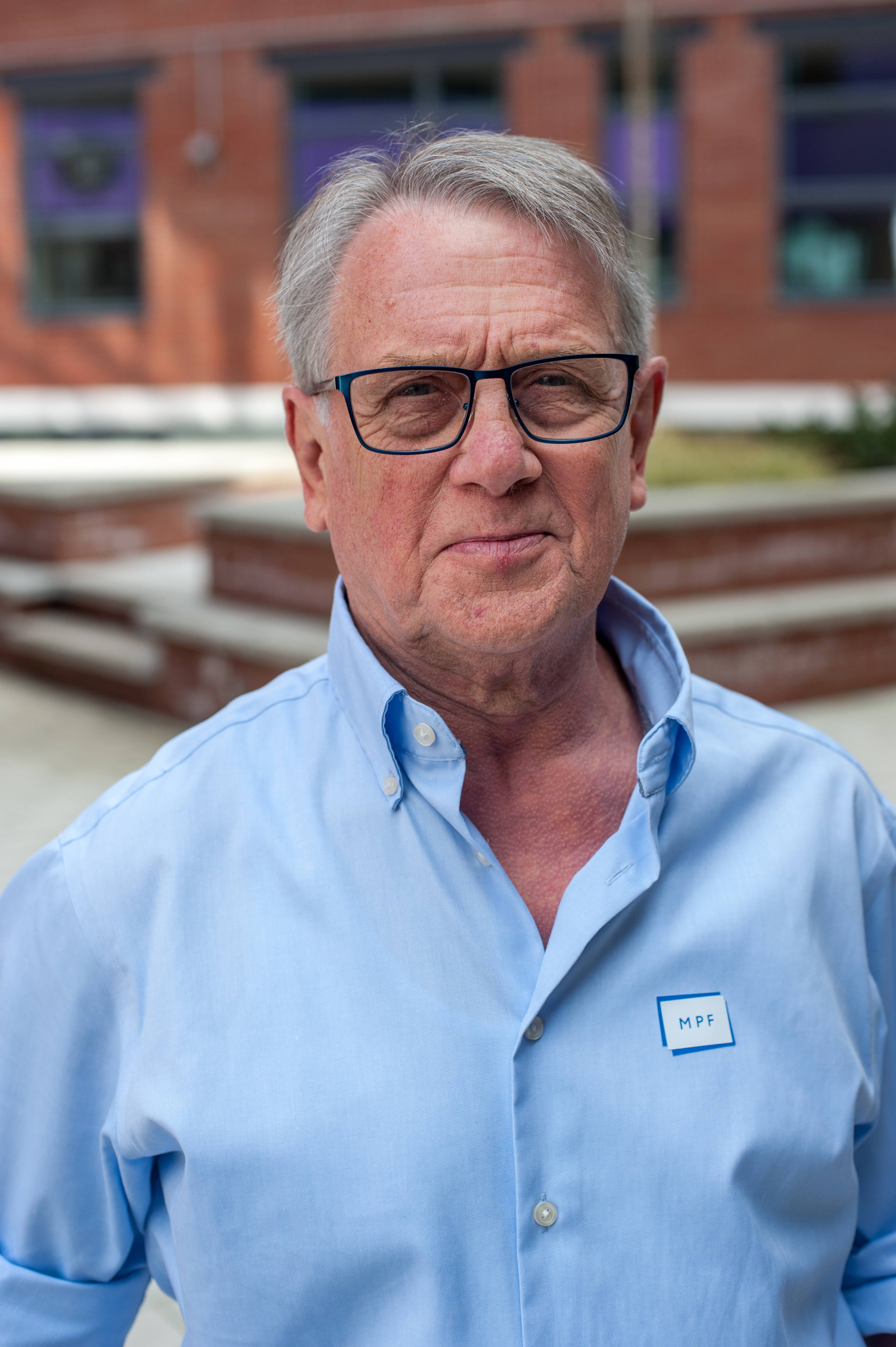 Portrait of British British landscape and portrait photographer John Myers, taken at the Martin Parr Foundation.